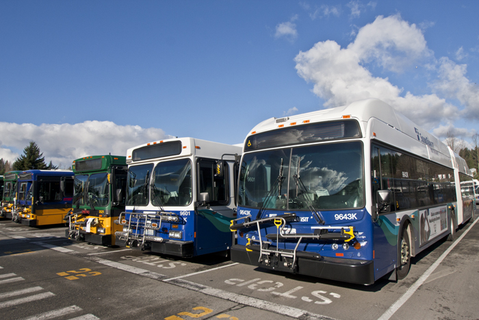 ST Express and King County Metro